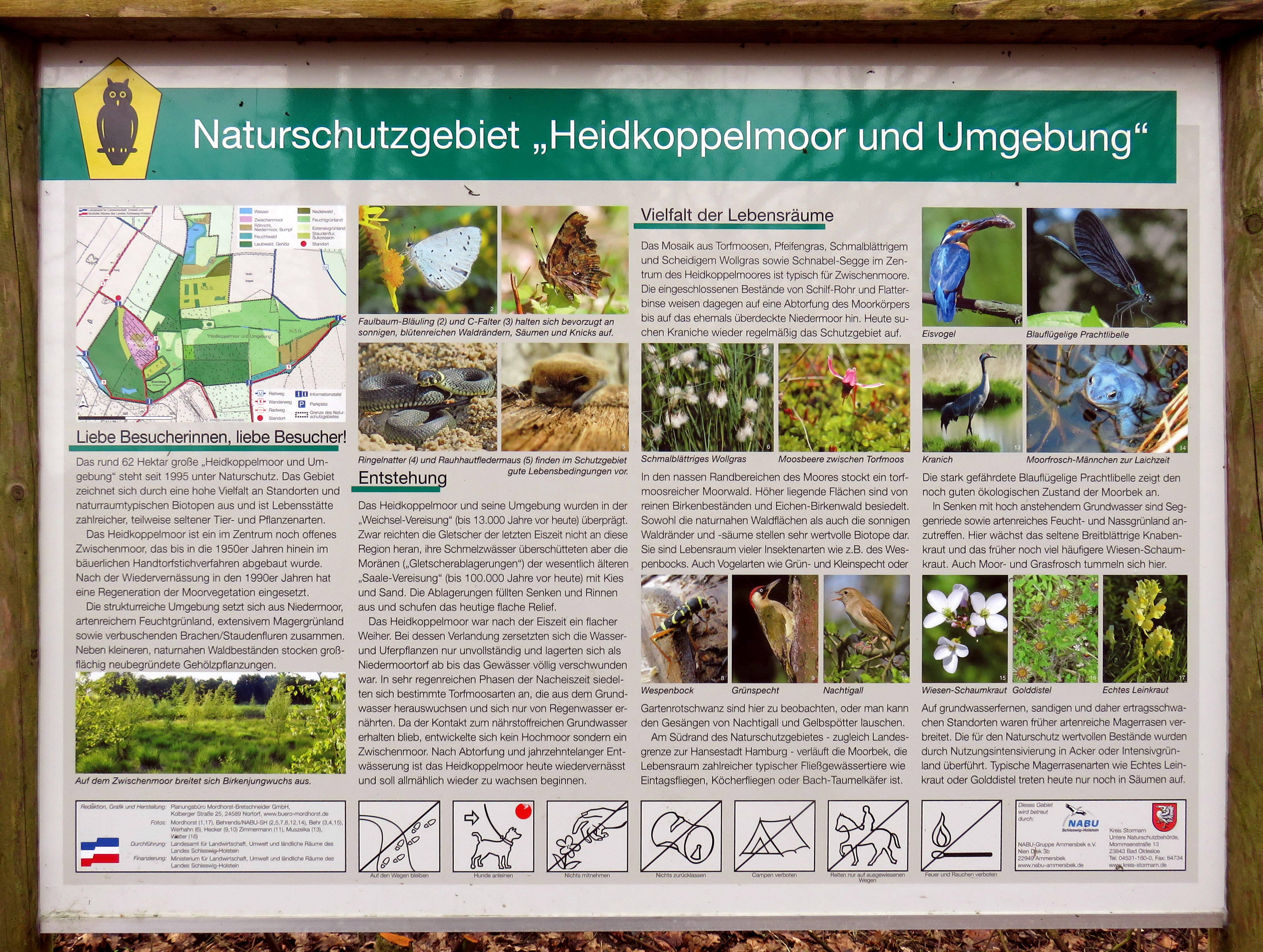 Overall view of information board of the nature reserve.